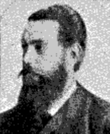 Andreas Hallén (1846-1925), Swedish composer